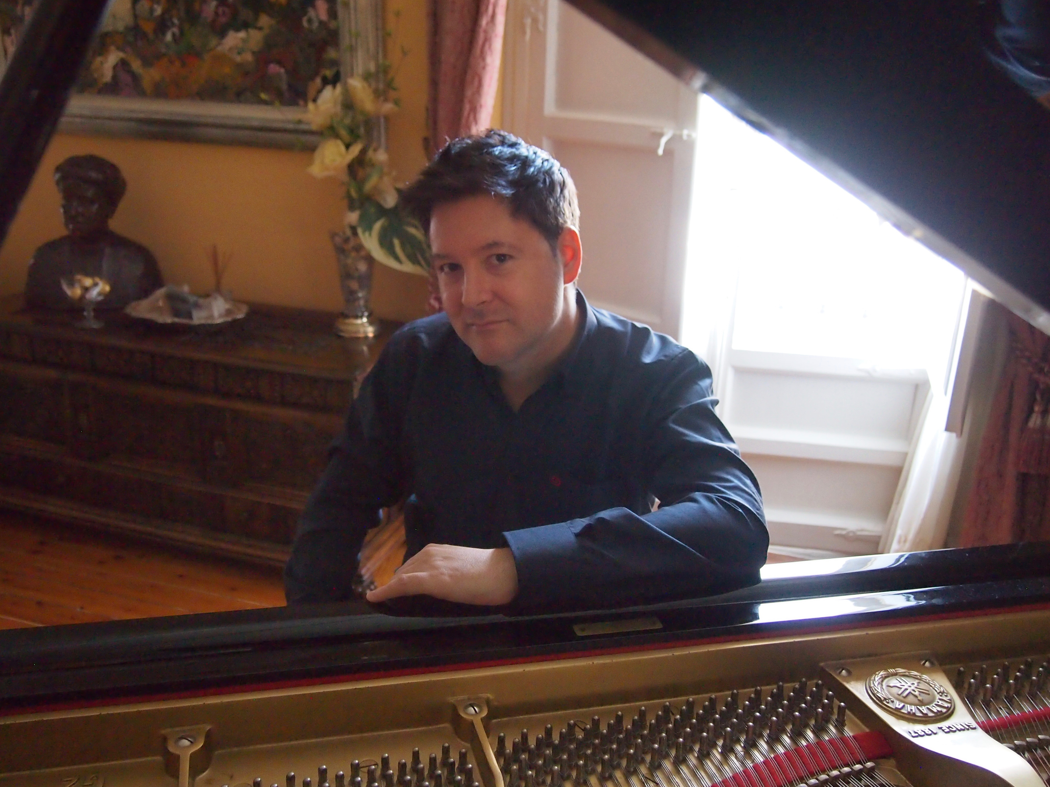 Slaski Piano 2017